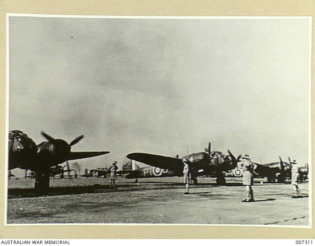 Royal Air Force Bristol Blenheim Mk.I bombers from No. 62 Squadron in Malaya, in June 1941.